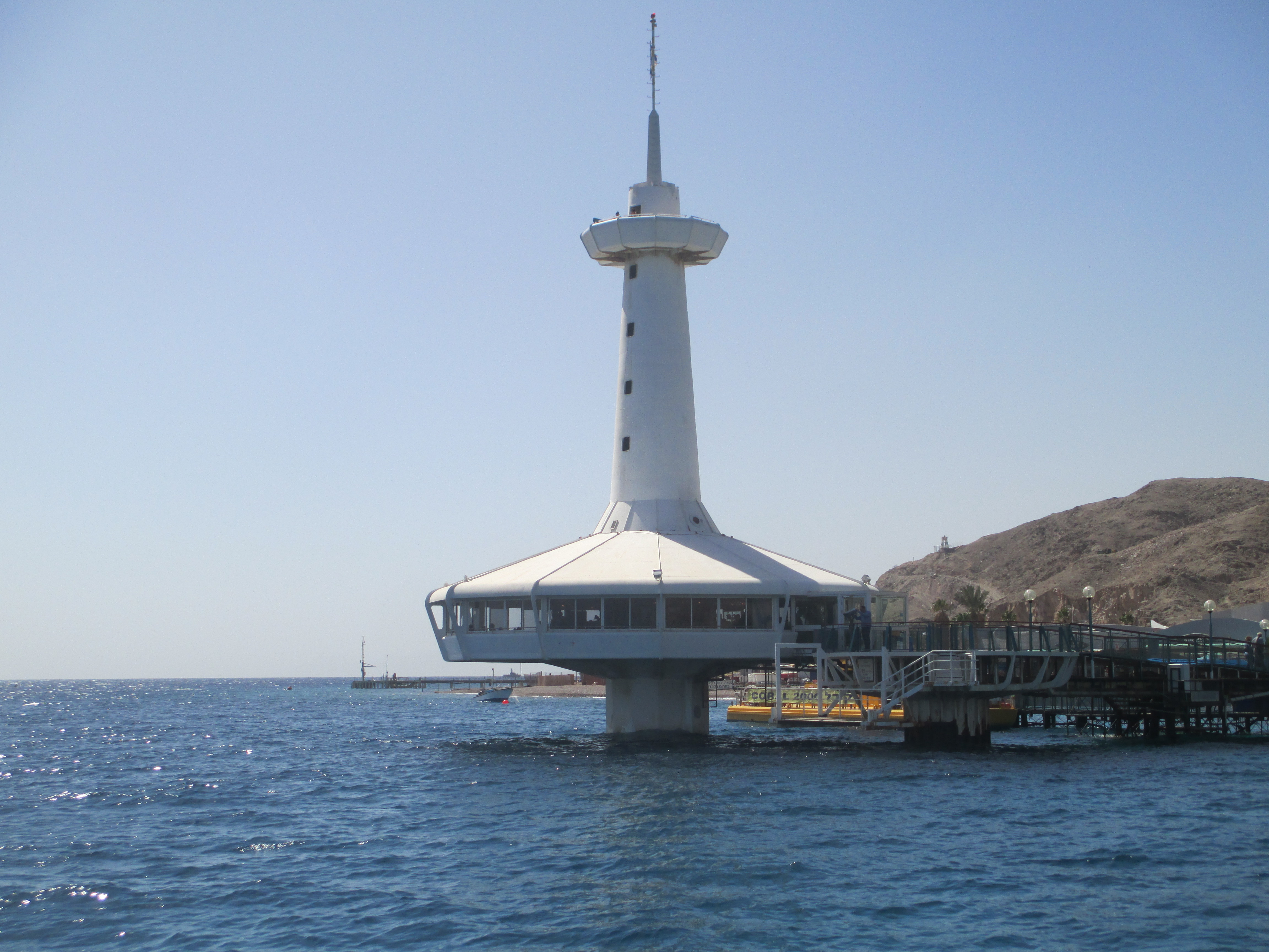 Underwater observatory in Eilat